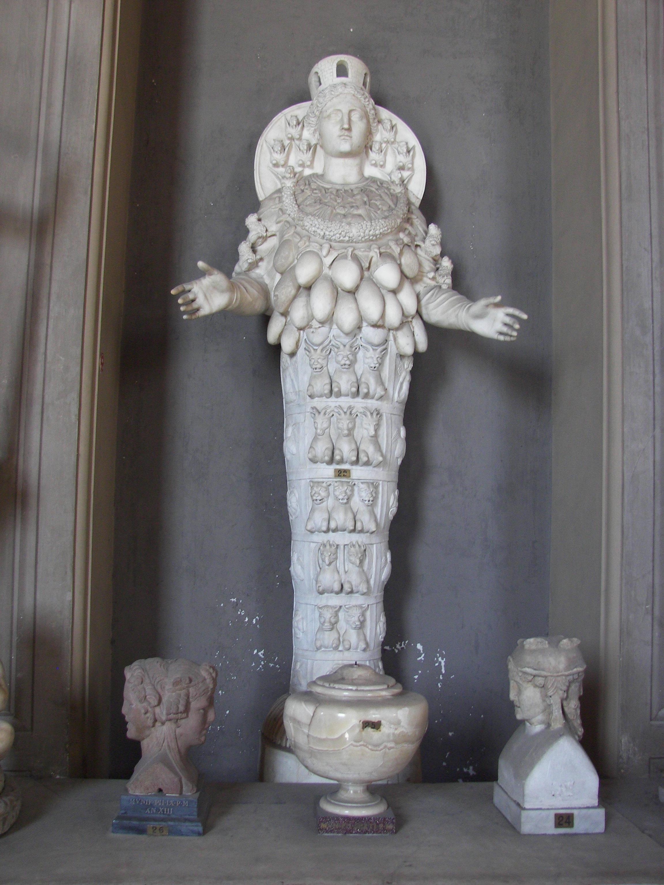 Statue of Artemis of Ephesus in the Vatican Museums.